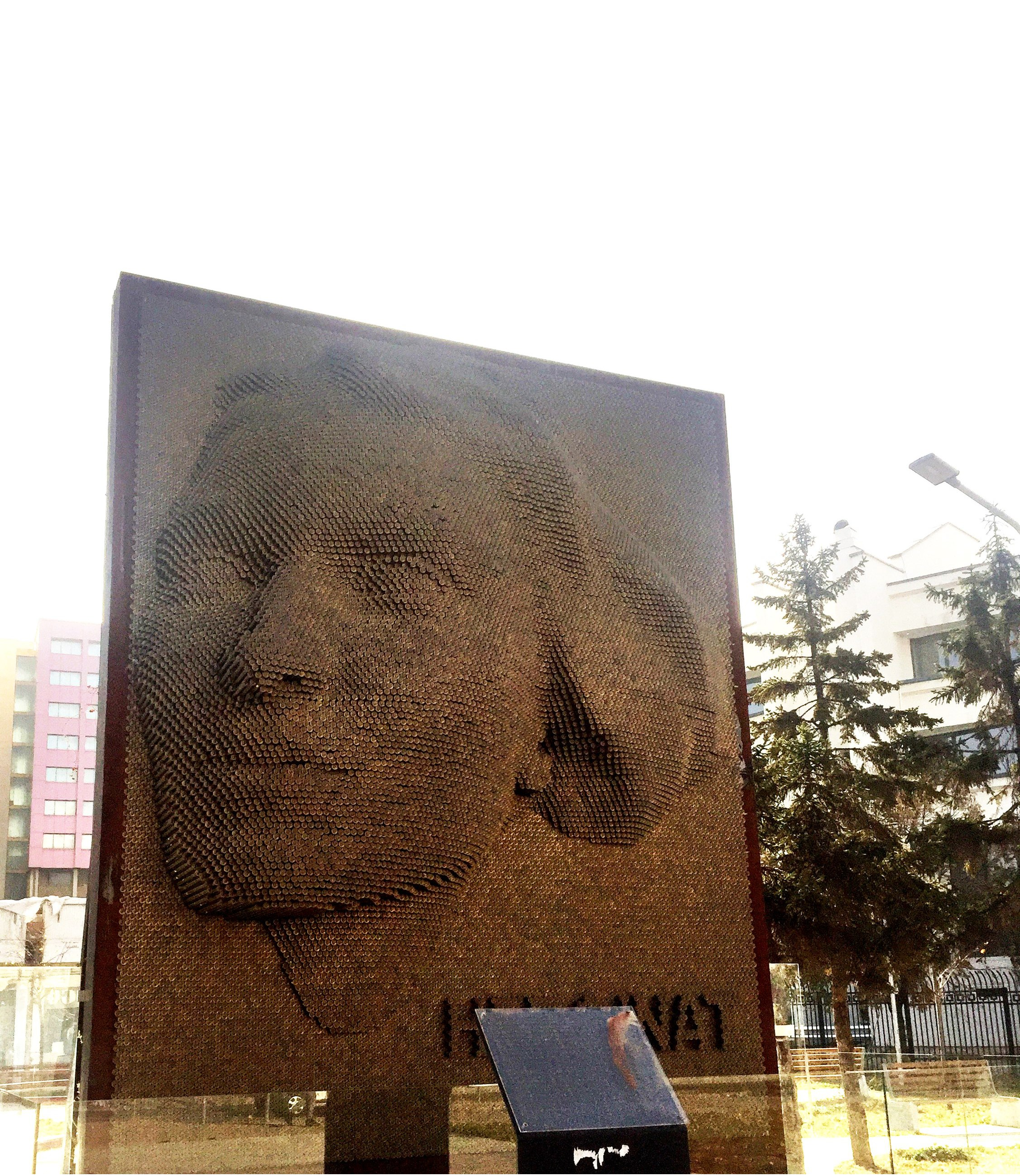 Heroinat Monumental, Pristina